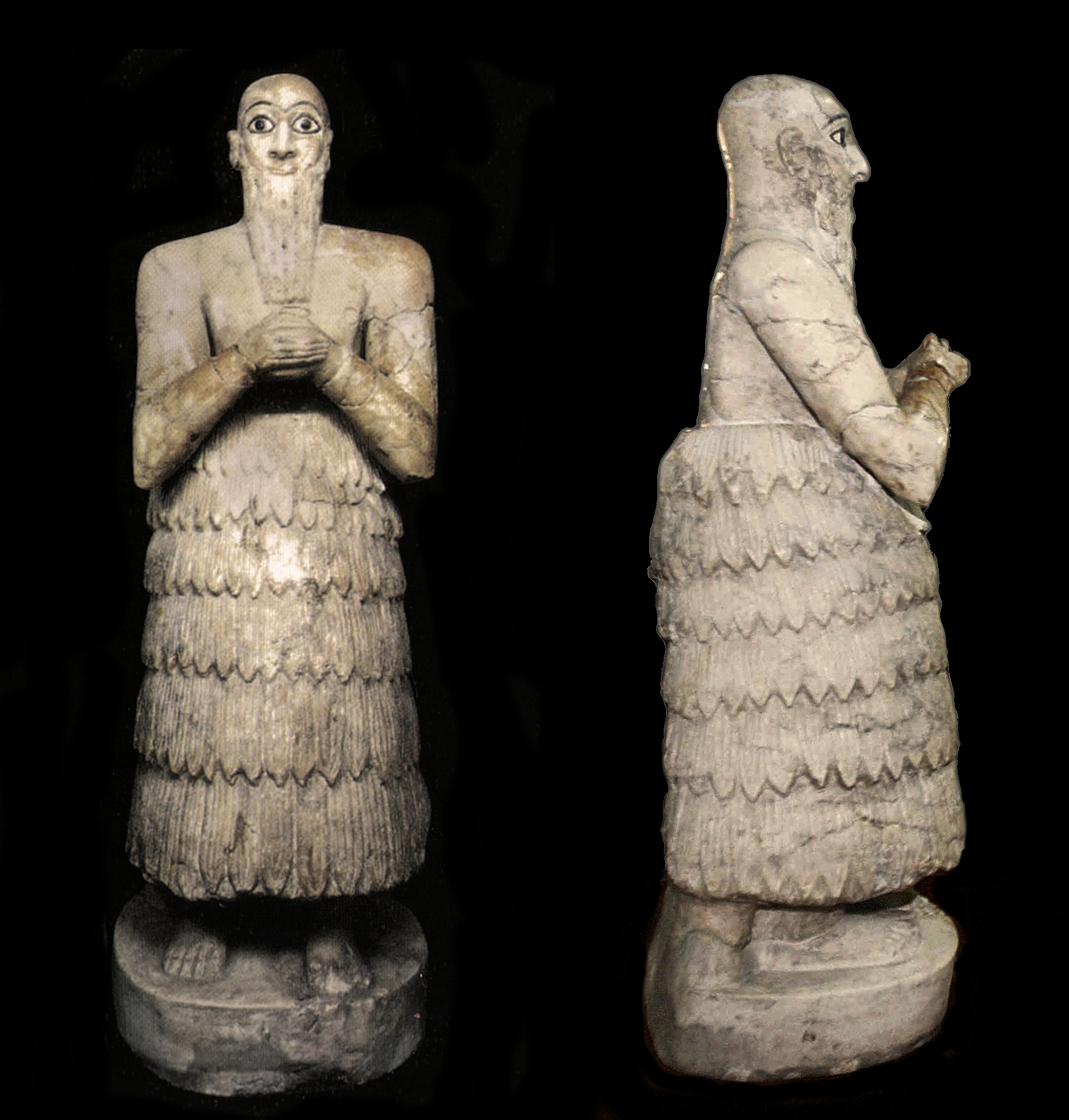 Iku-Shamagan - Mari - Temple of Ninni-Zaza (front and side)